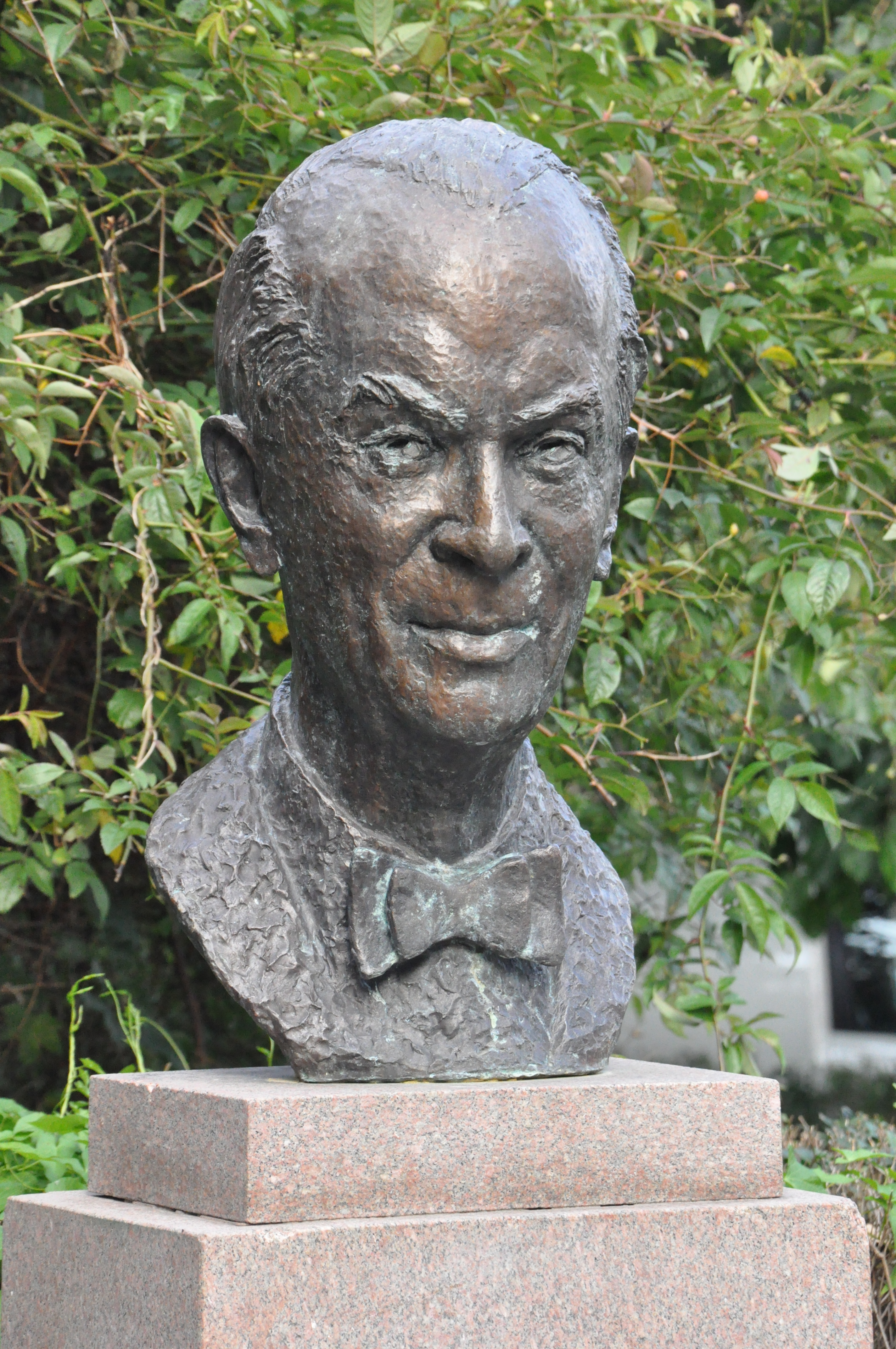 Bust of Karl Gerhard, outside Lorensberg Theatre, Göteborg